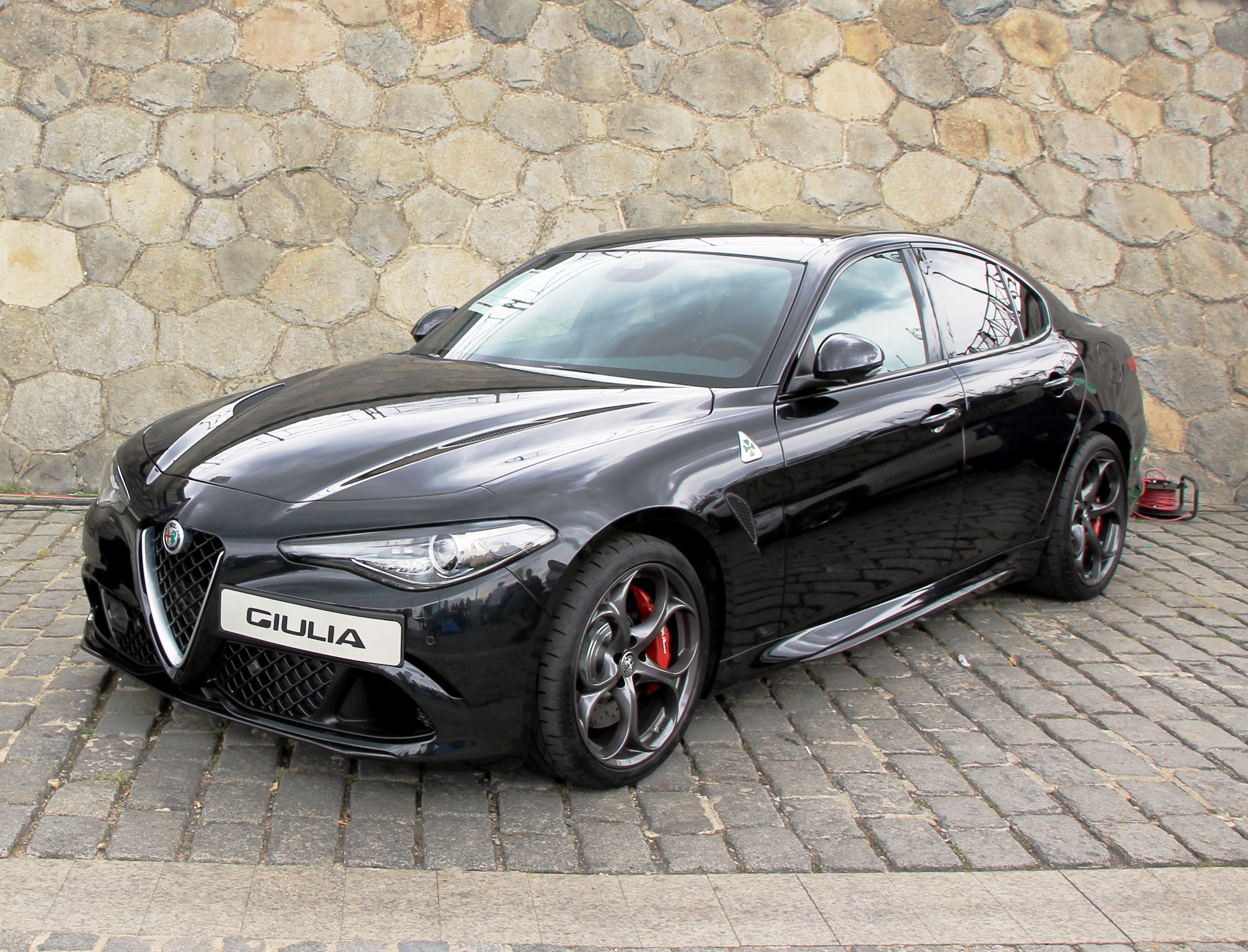 Automobile Alfa Romeo Giulia (952) on Motor show Auta na náplavce in Prague, Czech Republic 2017